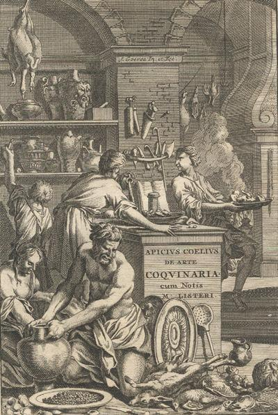 Apicius, De Opsoniis et Condimentis (Amsterdam: J. Waesbergios), 1709. Limited to 100 copies (KSU owns four).